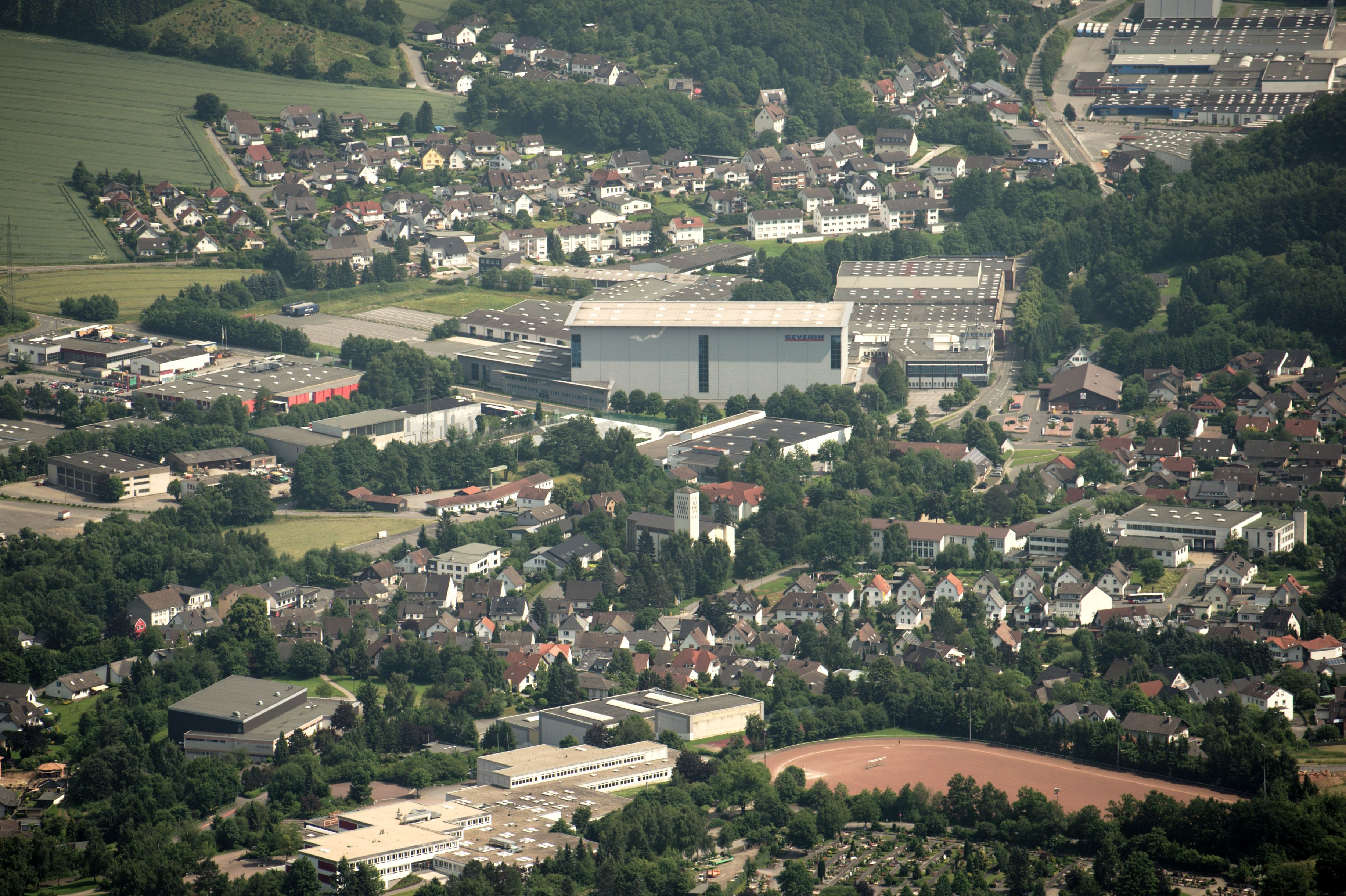 Fotoflug Sauerland-Ost – Industriegebiet Sundern mit dem Stammwerk von Severin Elektrogeräte The making of this document was supported by the Community-Budget of Wikimedia Germany.